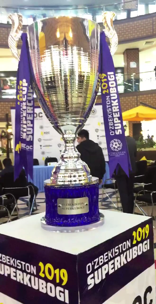 2019 Uzbekistan Super Cup